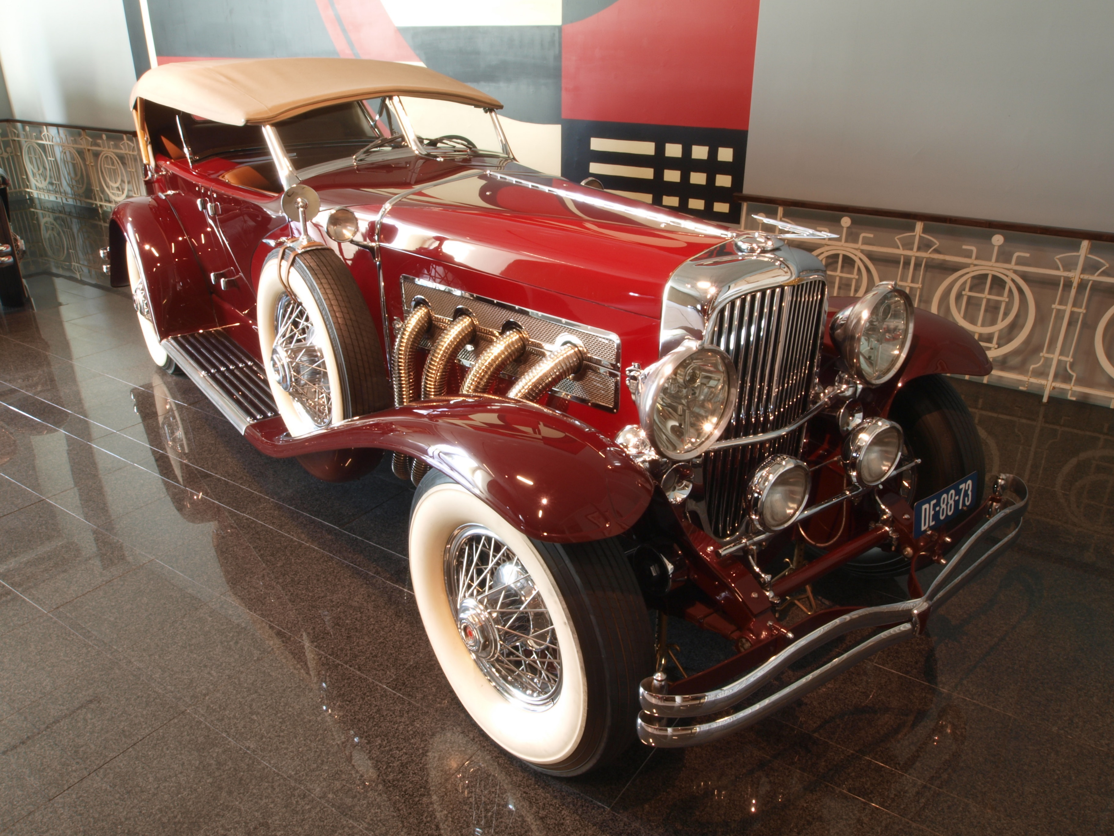 Photographed at the Louwman museum / Louwman Collection, The Netherlands.